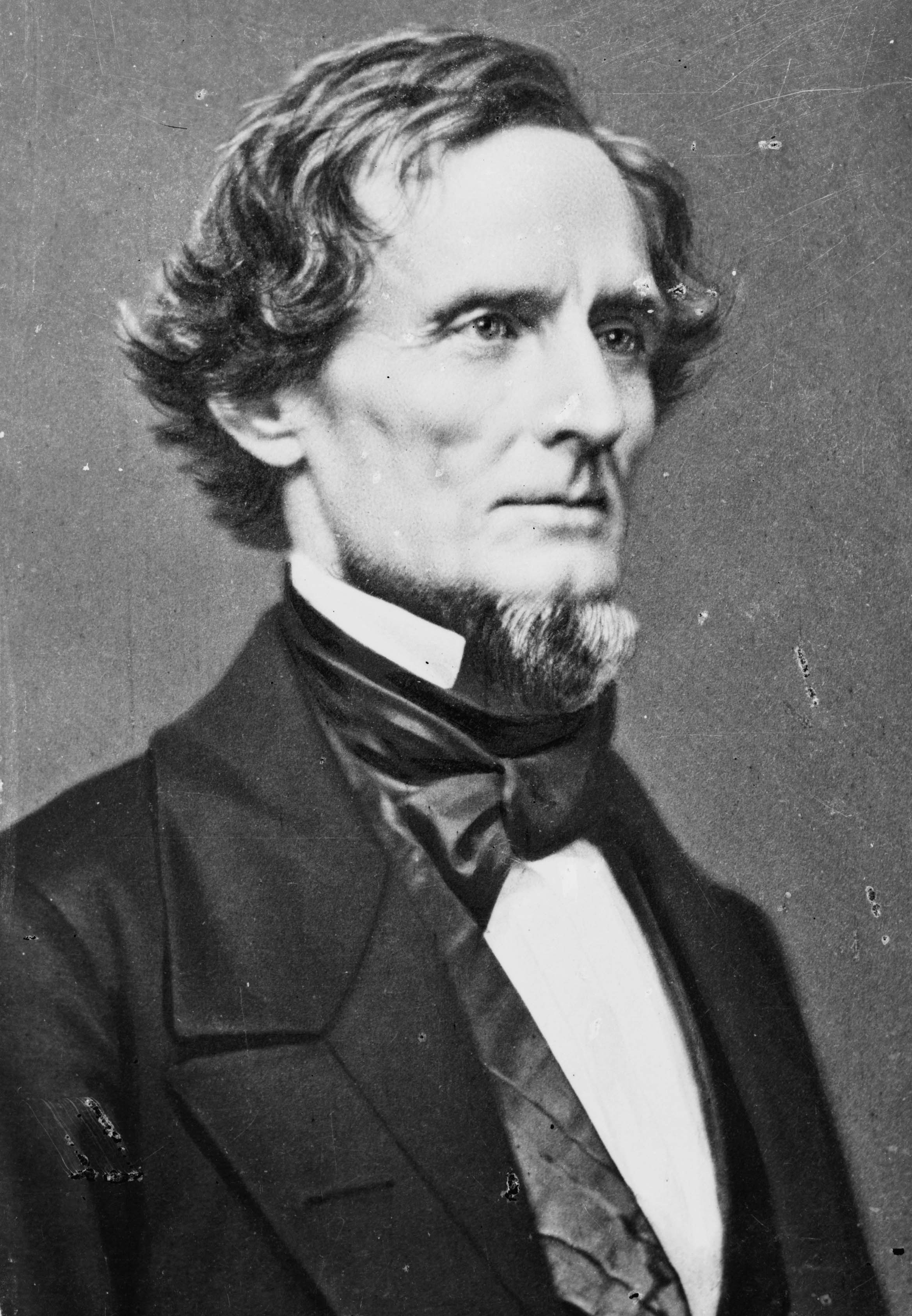 Forms part of Brady-Handy Photograph Collection (Library of Congress).